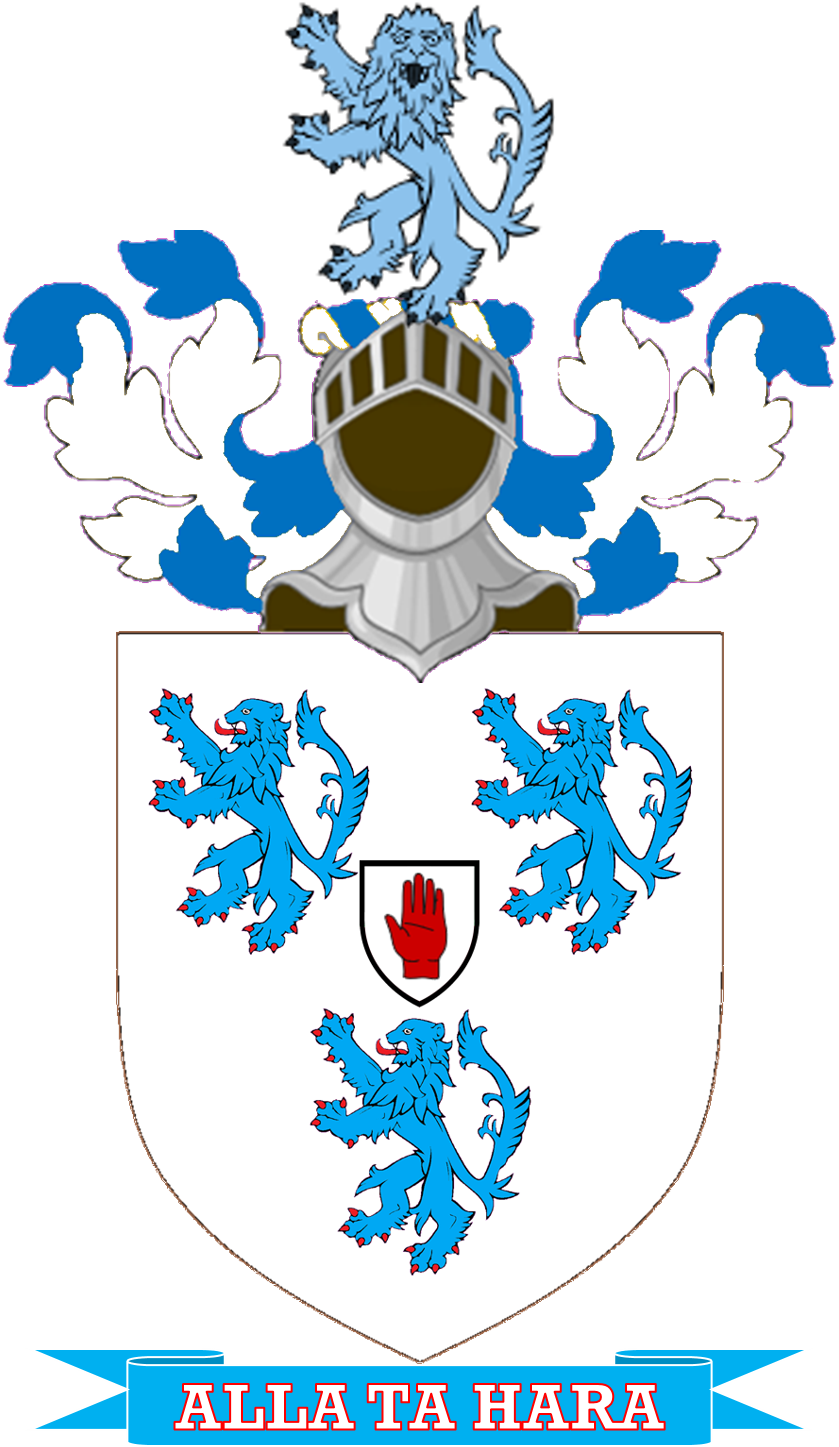 The armorial achievement of the St John-Mildmay baronets of Farley